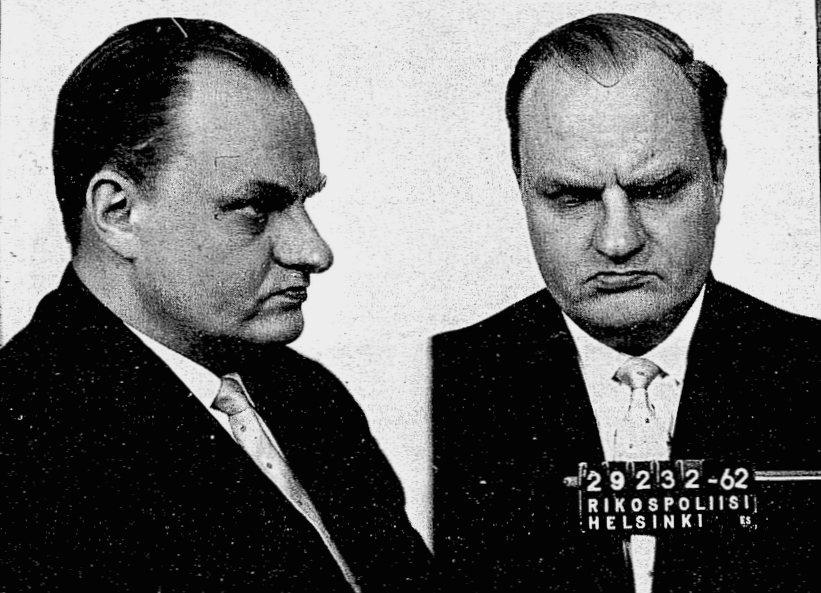 Photograph of the Finnish criminal Sven Laine (1922 – ca. 1987).